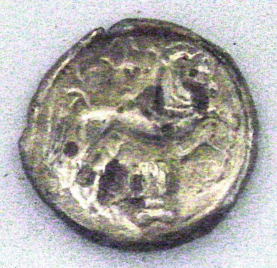 Coinage of the Santons, Charente-Maritime, France. 1st century BCE. Personal photograph, cabinet des Medailles.